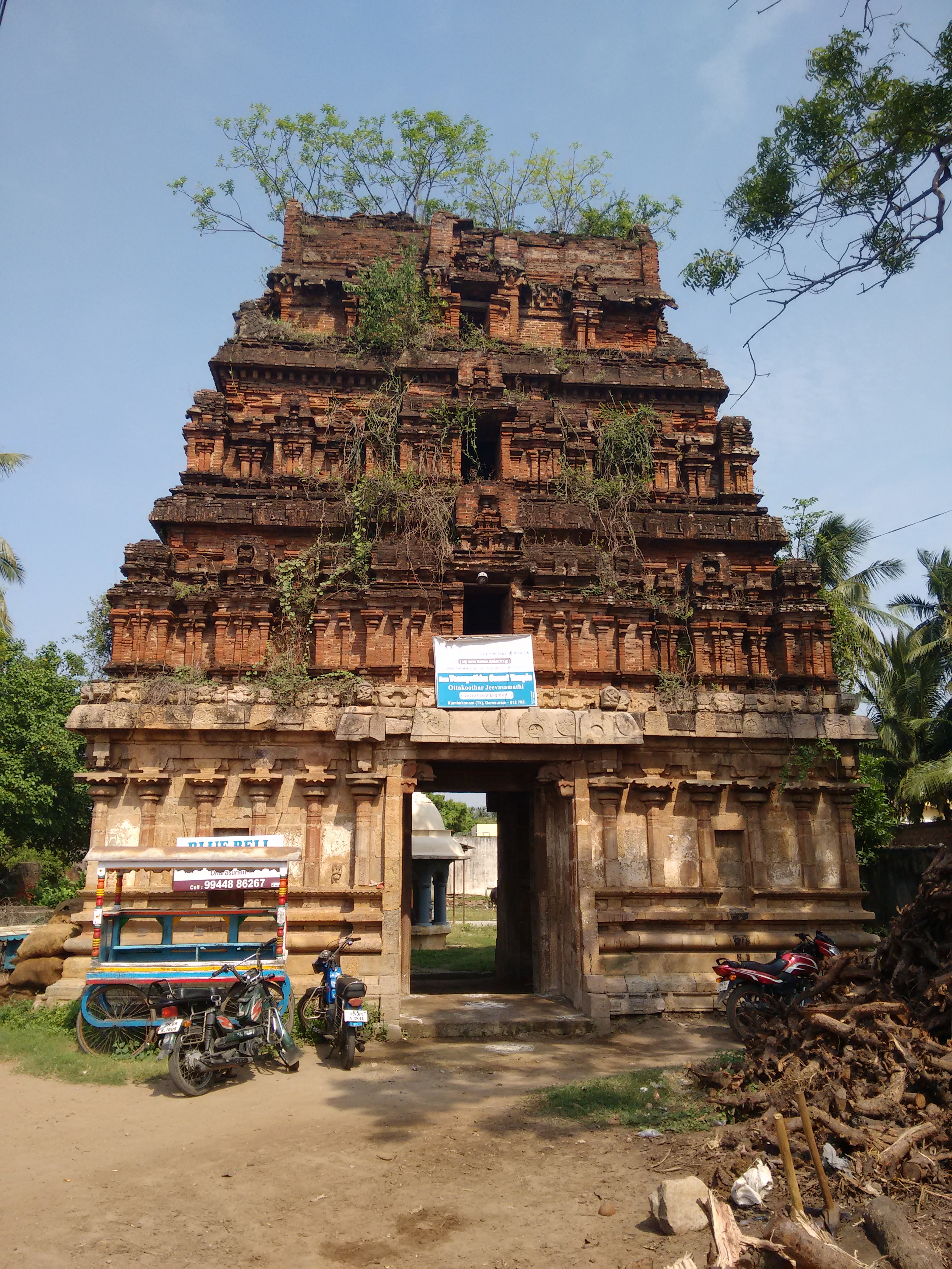 Darasuramveerabadrartemple தாராசுரம் வீரபத்திரர்கோயில்